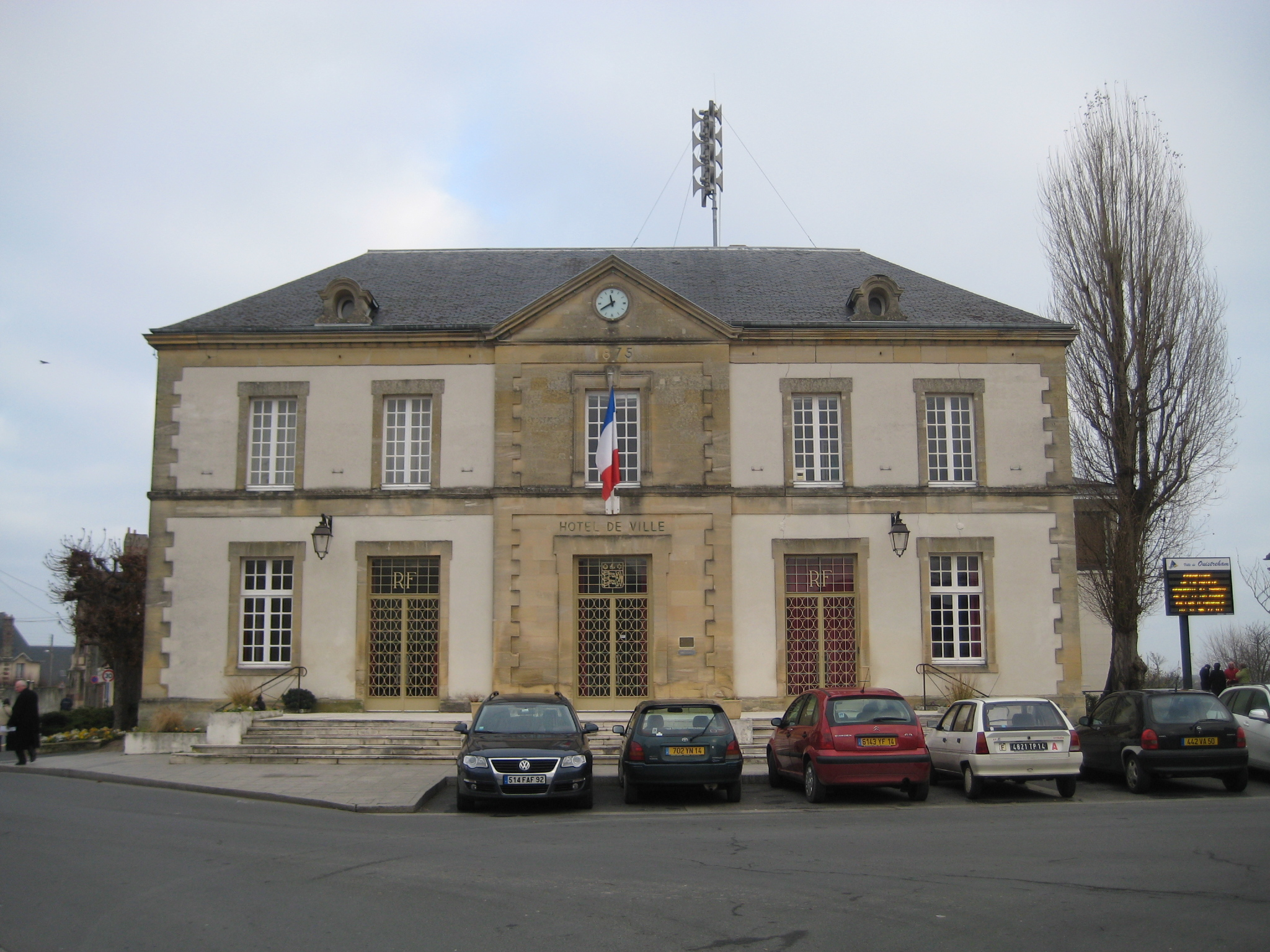 Town hall (front) of Ouistreham, Calvados France